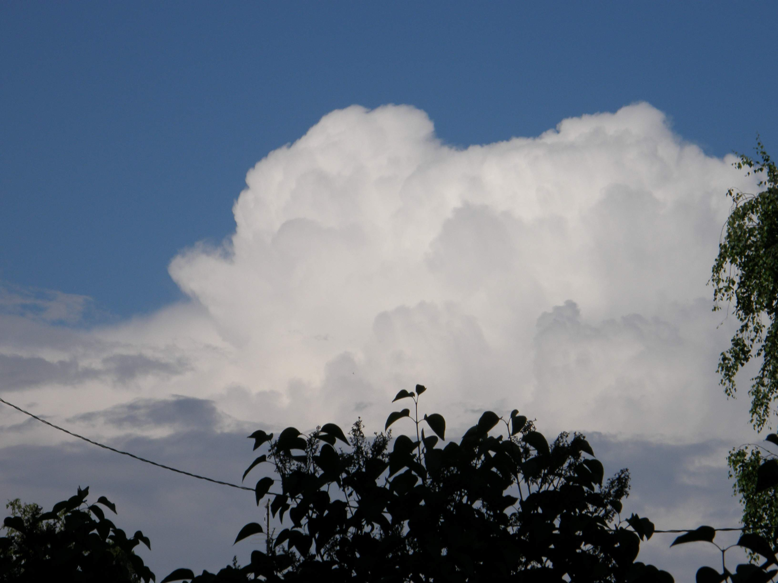 Young thundercloud, Cumulonimbus calvus.